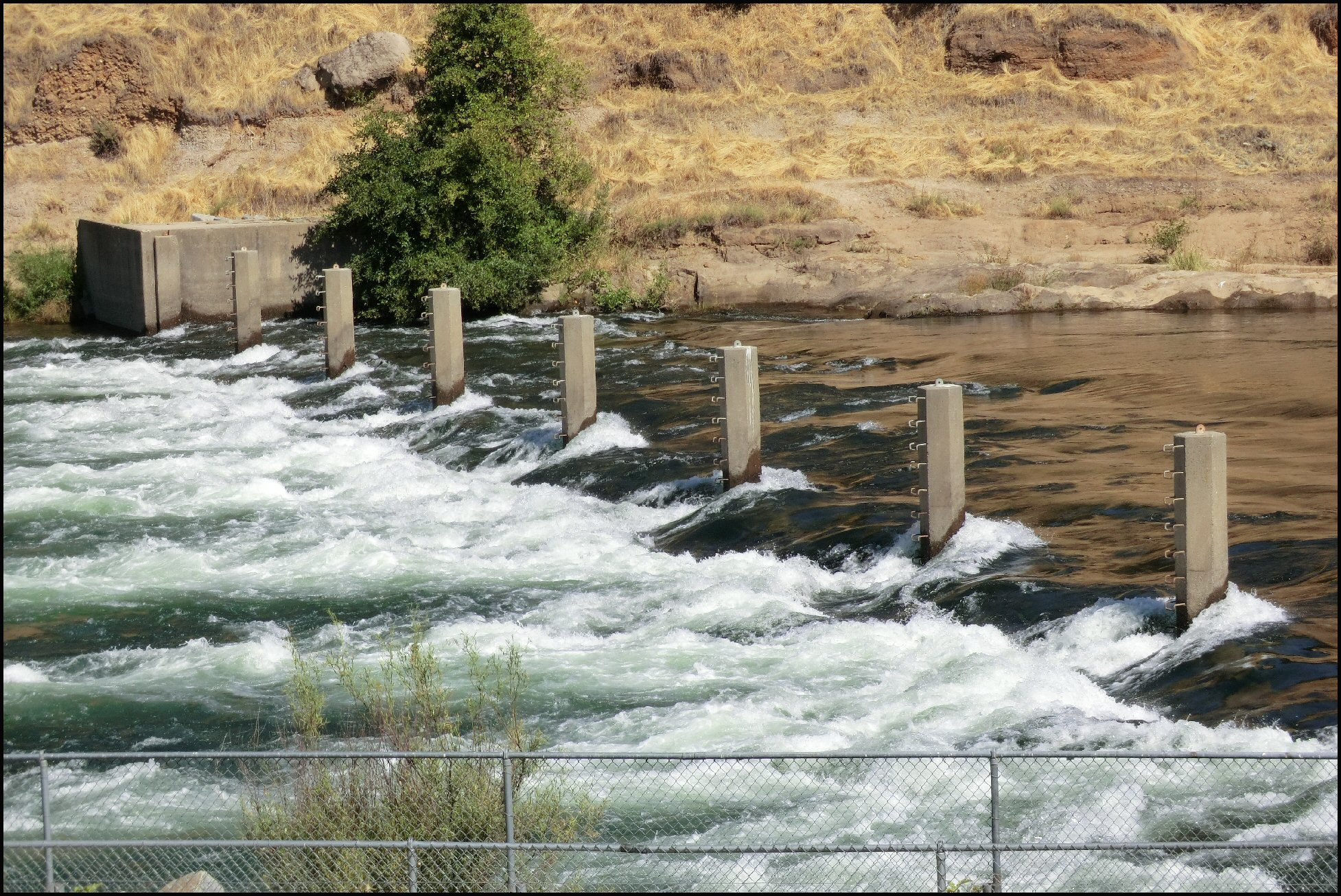 Am. River at Nimbus Dam 969